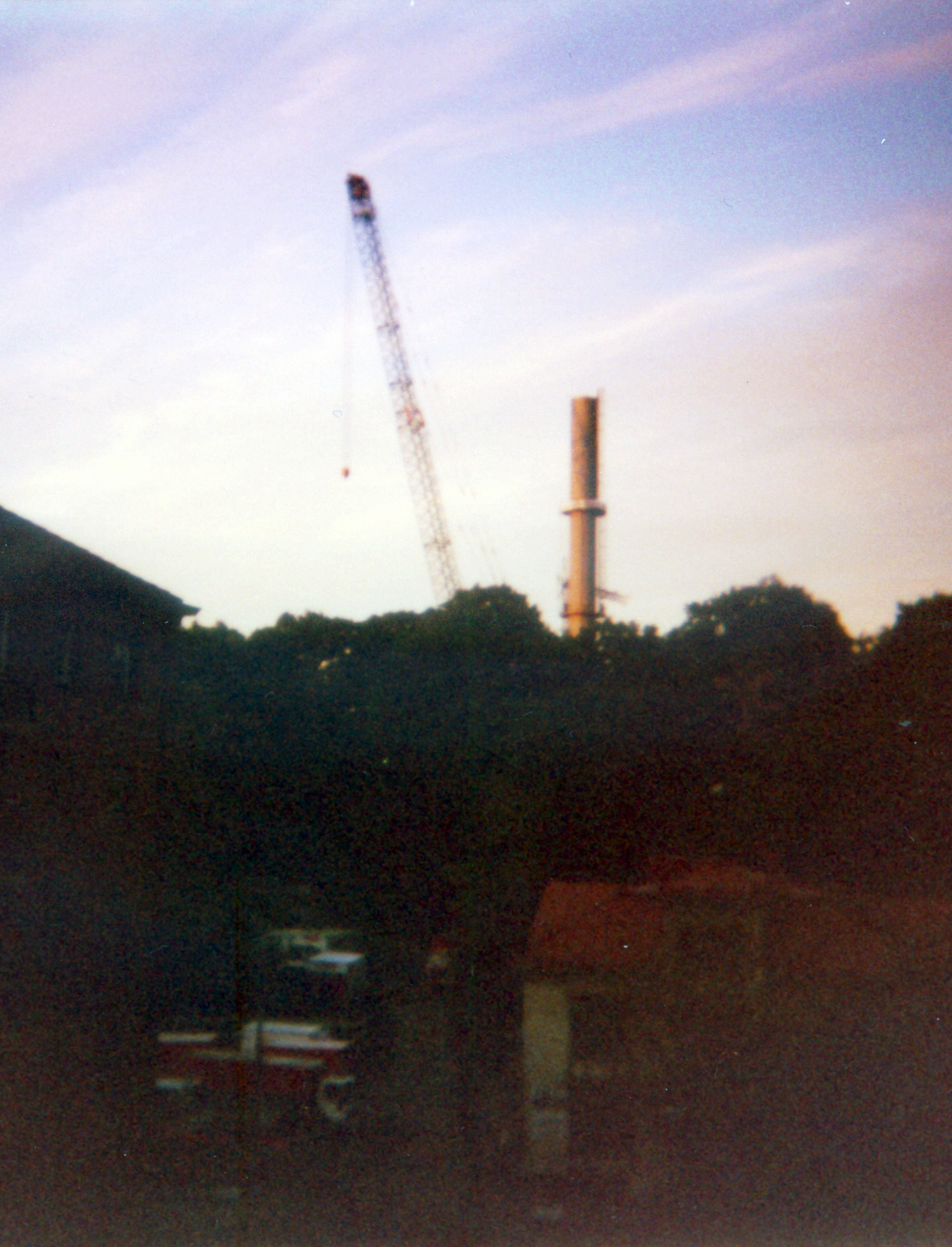 The building of Lisebergstornet at Liseberg in Gothenburg, Sweden, 1989.